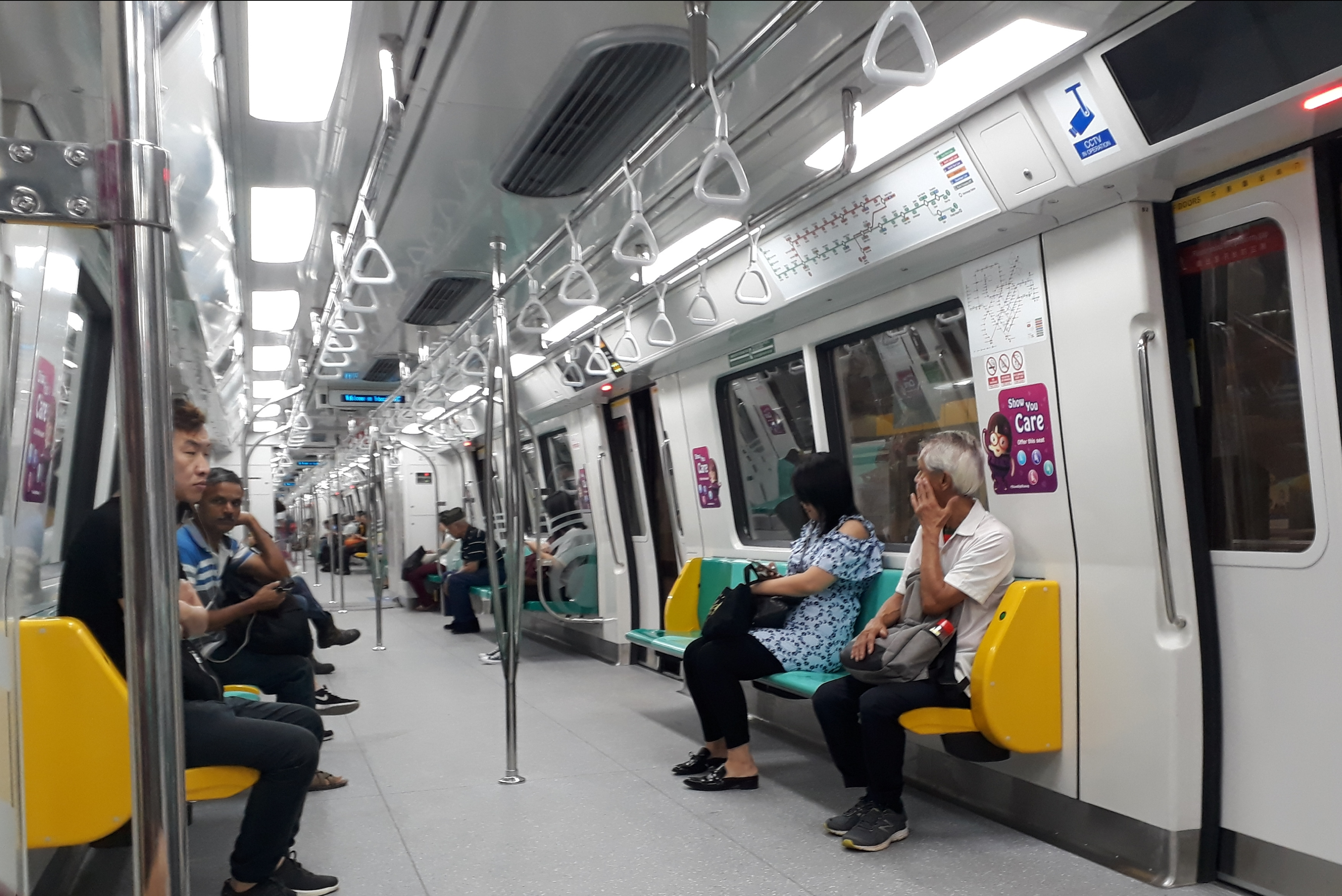 Foldable chairs in Kawasaki Heavy Industries & CSR Qingdao Sifang C151C